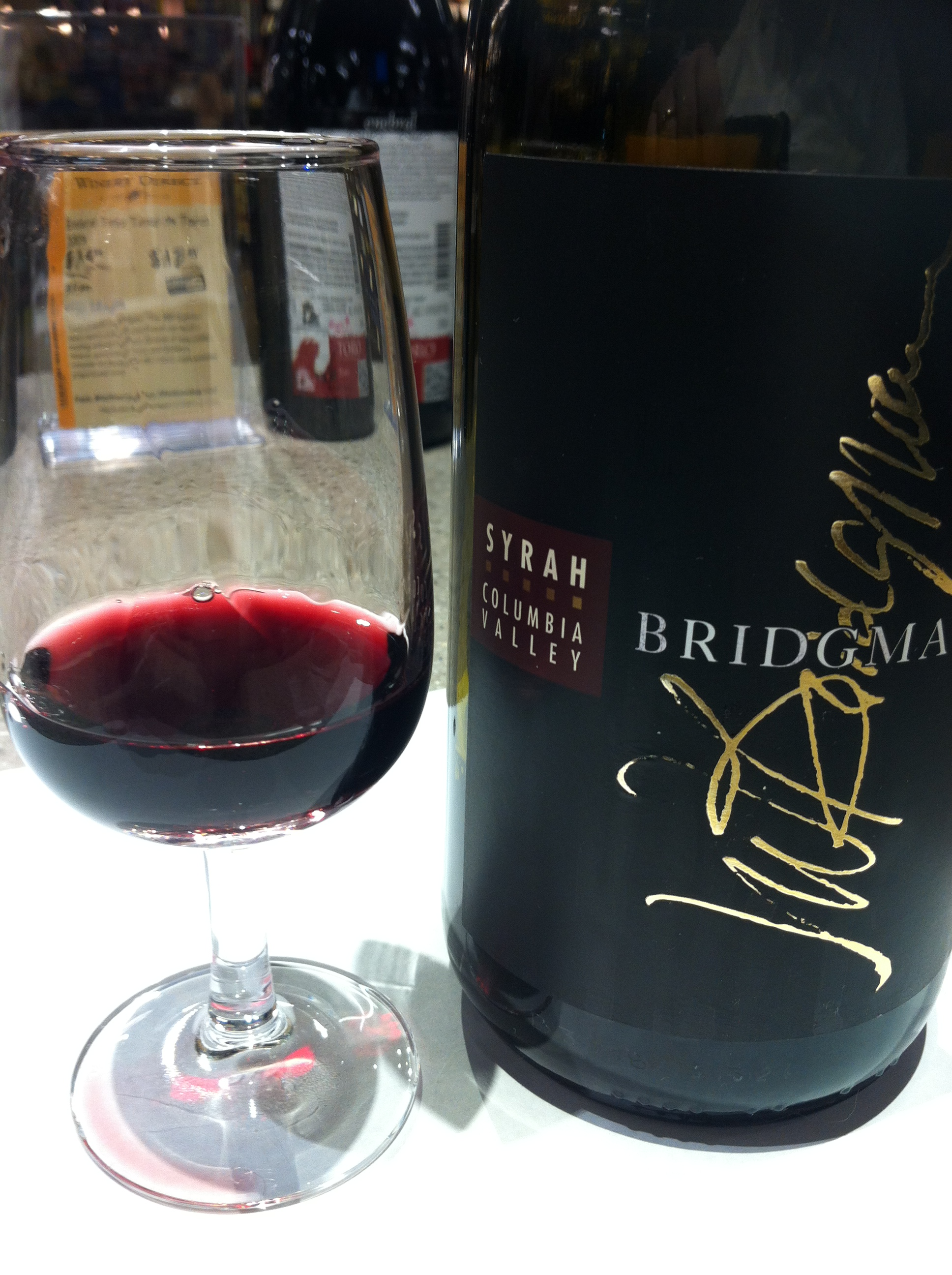 Red Washington wine from the Columbia Valley AVA made from Syrah